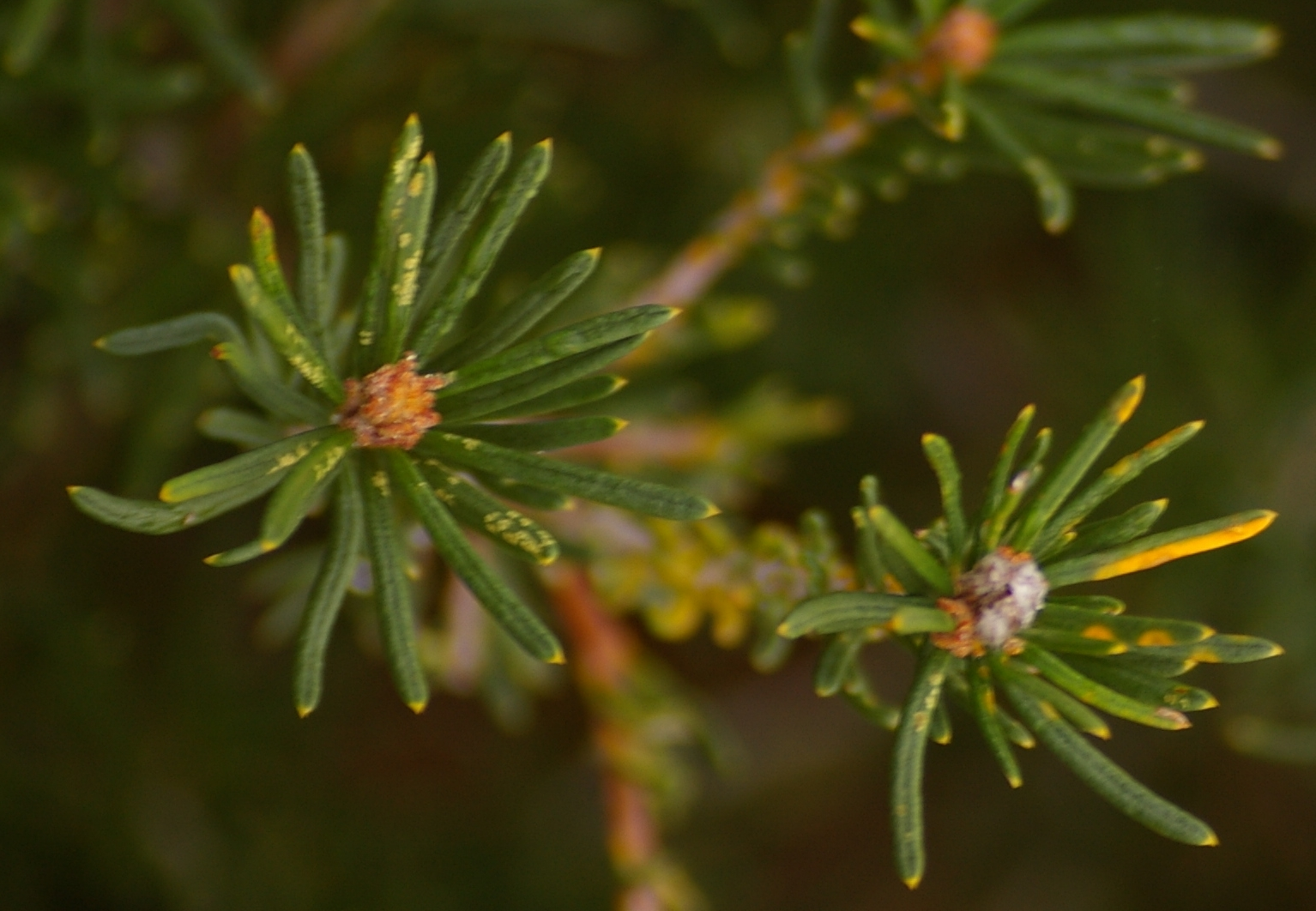 Leaf of Banksia telmatiaea